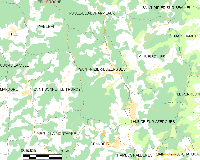 Map of French municipality